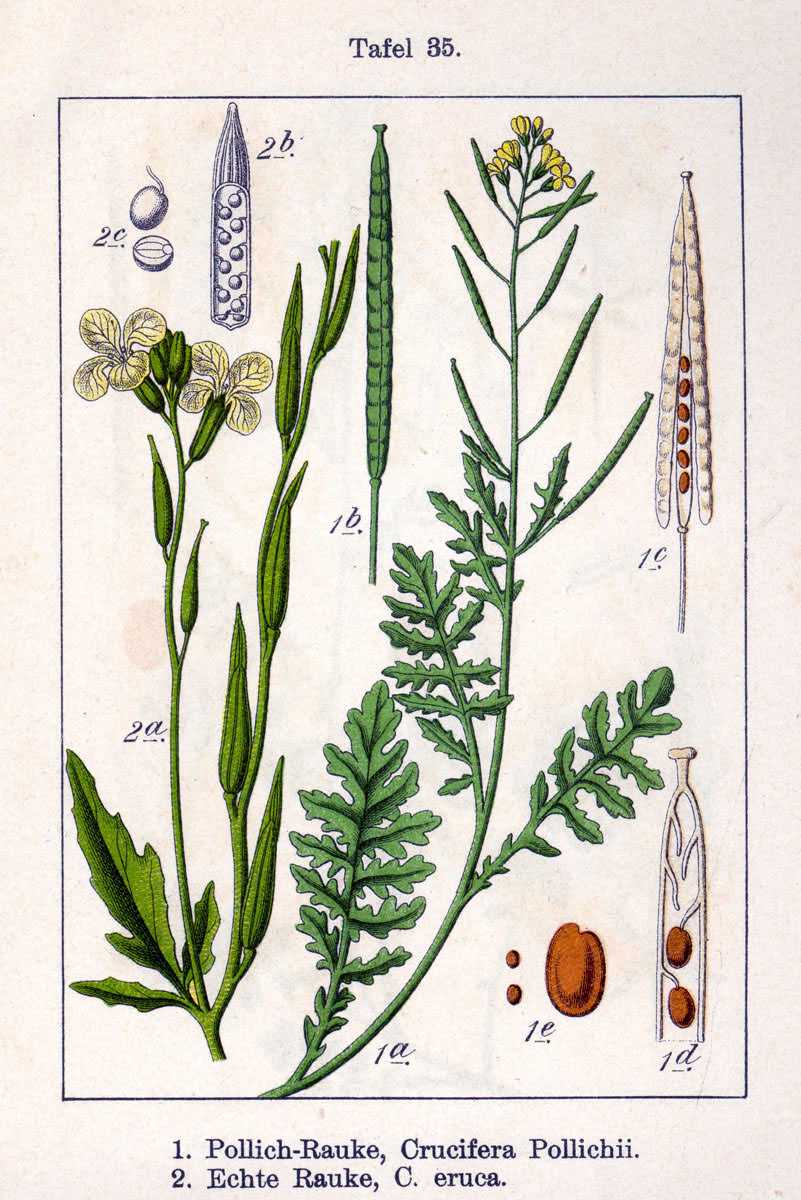 1. Erucastrum gallicum (Willd.) O.E.Schulz, syn. Crucifera pollichii (Schimp. & Spenn.) E.H.L.Krause 2. Eruca vesicaria (L.) Cav., Eruca sativa subsp. sativa, syn. Crucifera eruca E.H.L.Krause Original Description 1. Pollich-Rauke, Crucifera pollichii 2. Echte Rauke, Crucifera eruca